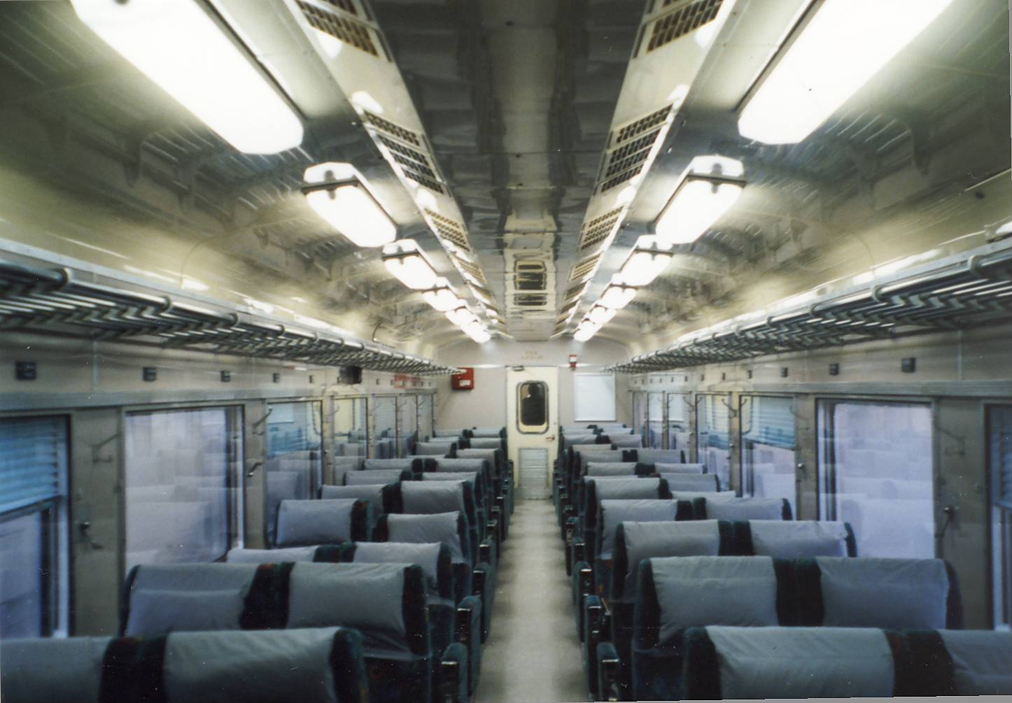 interior of express EMU class AEZ of EFE, Chilean State Railways.